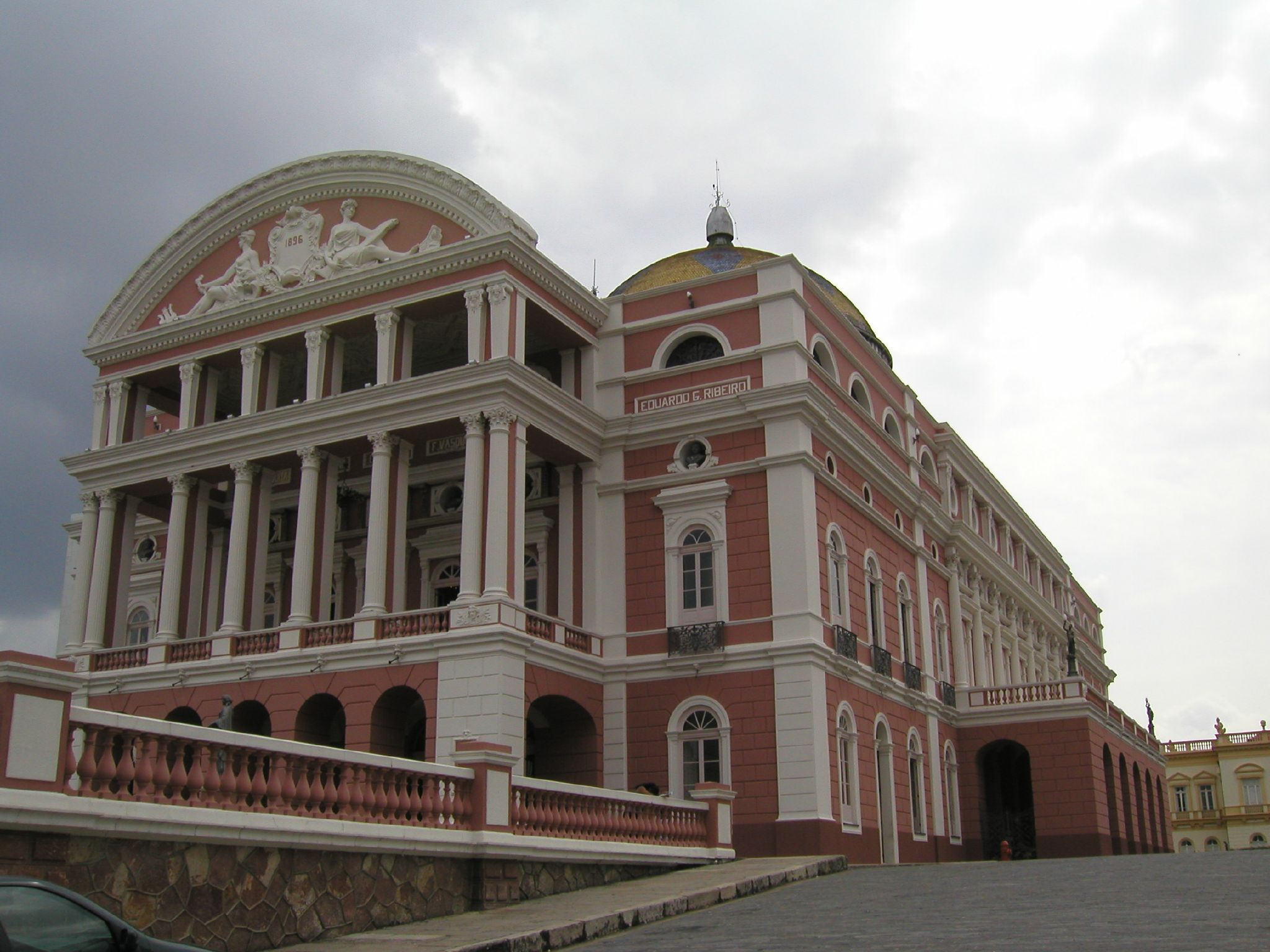 == Summary (Beschreibung) == , Manaus Opera, Manaus Opera House, BrazilLocation: Manaus